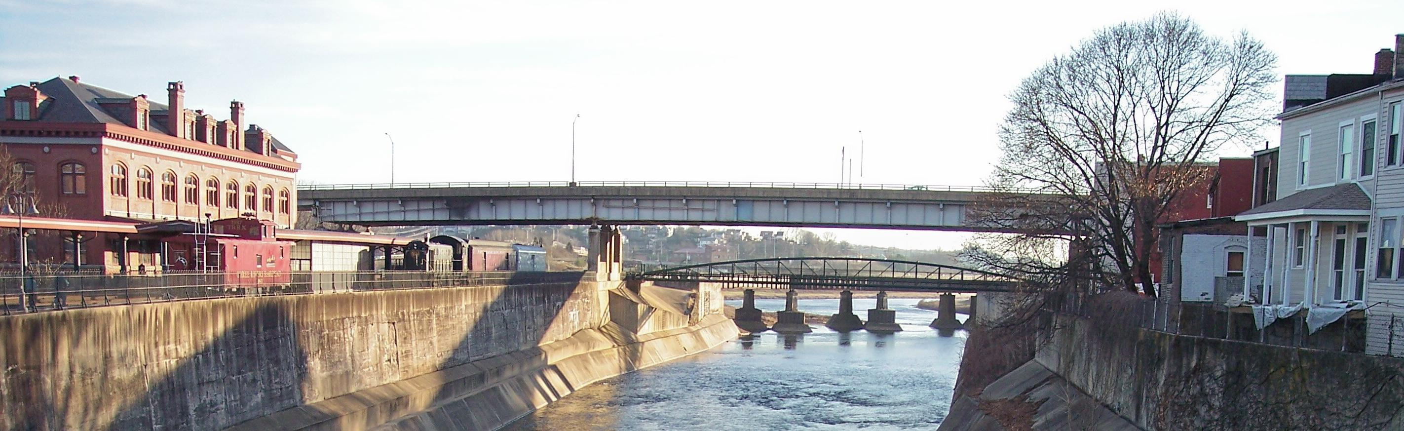 Wills Creek as viewed downstream from Baltimore Street in Cumberland, Maryland. Inerstate 68 and the creek's mouth at the North Branch of the Potomac River are visible in the distance.